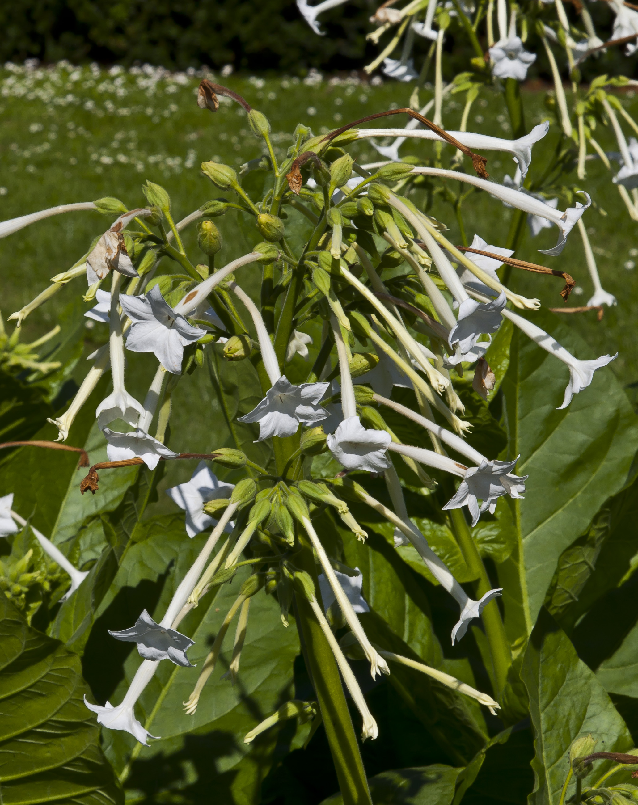 Nicotiana sylvestris, Tallinn Botanic Garden, Estonia